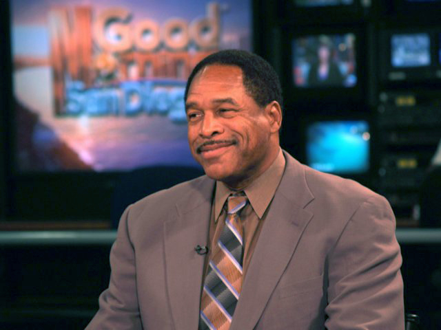 Photo of Baseball Hall Of Famer Dave Winfield which I personally took.